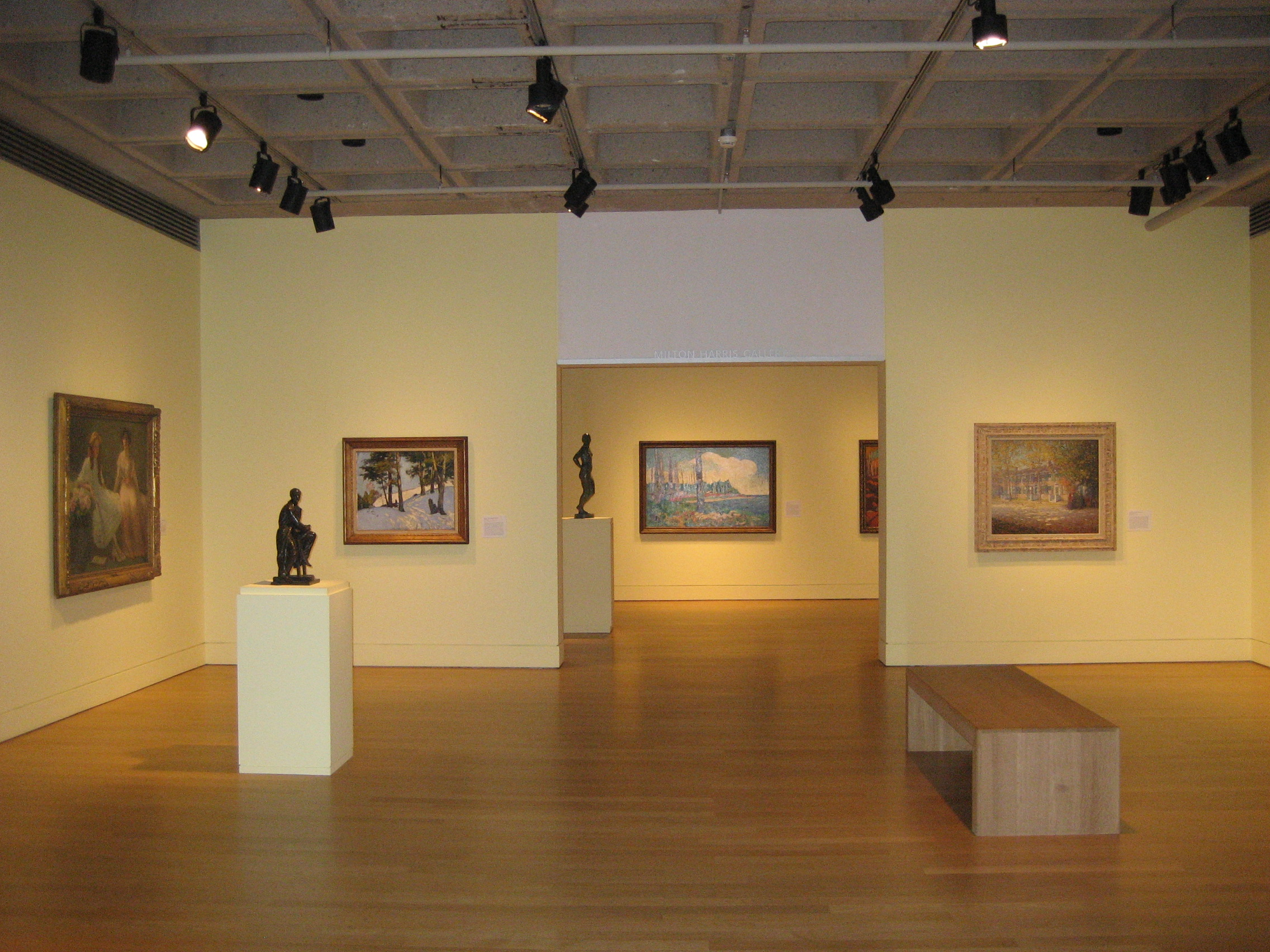 Art Gallery Hamilton, Hamilton, Canada.